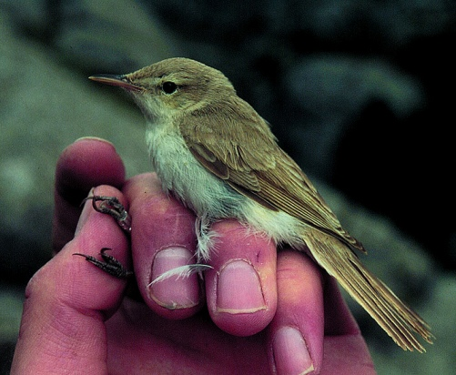 First Norwegian record of Sykes's Warbler Første funn av Ramasanger i Norge